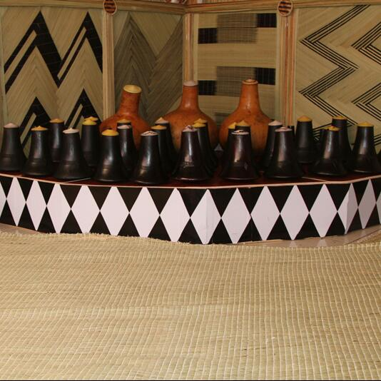 The photo shows two items, ibyansi(brown) and ibisabo(black) that are commonly used in Rwandan marriage customs and are given to the bride during marriage ceremonies. The tradition started long ago and is widely respected all around Rwanda. Apart from that, these two items also are used in other activities like milking(ibyansi) and making cow-ghee locally (ibisabo) respectively.